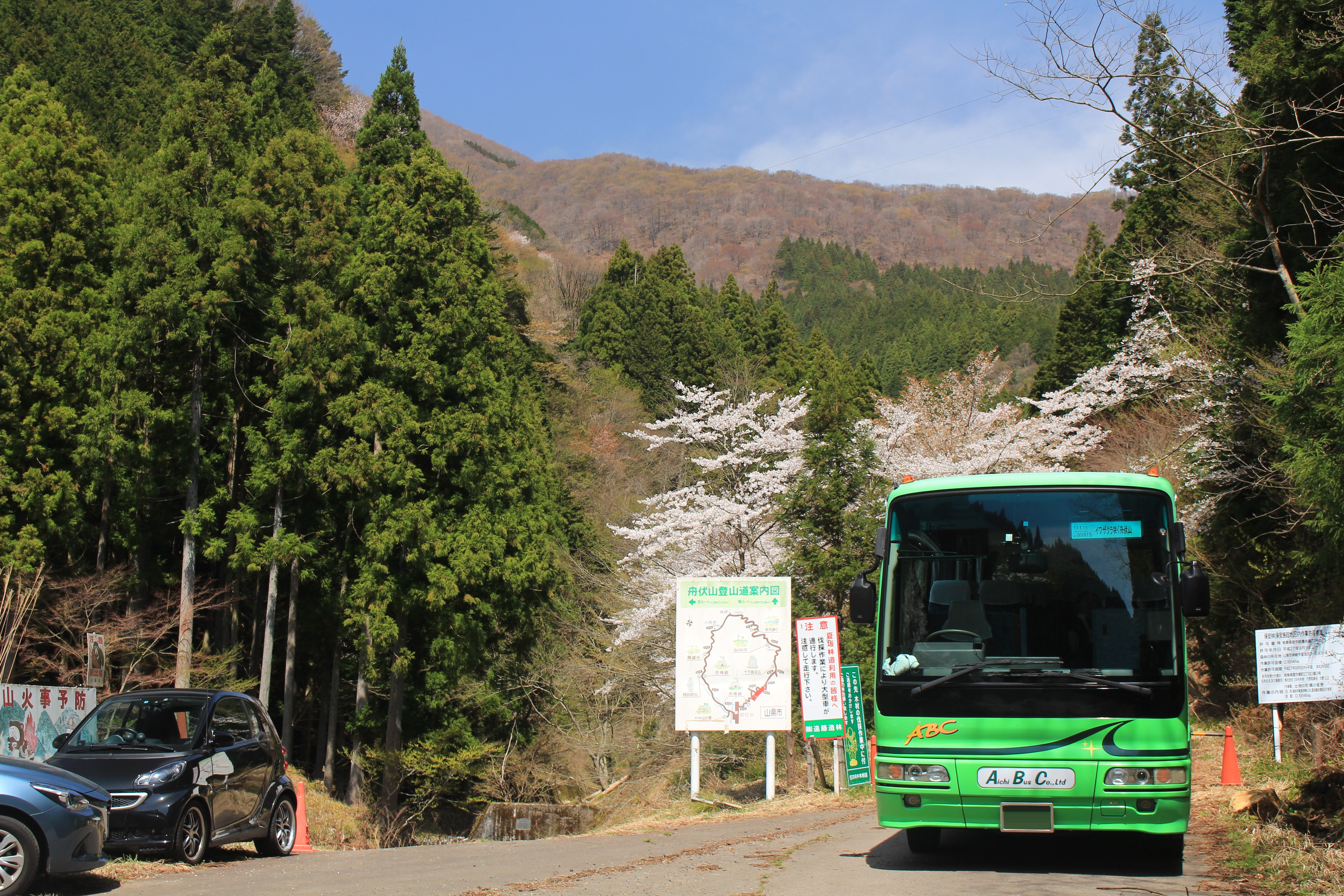 Bus of Club Tourism in Ainomori on Mount Funabuse, Yamagata, Gifu Prefecture, Japan.